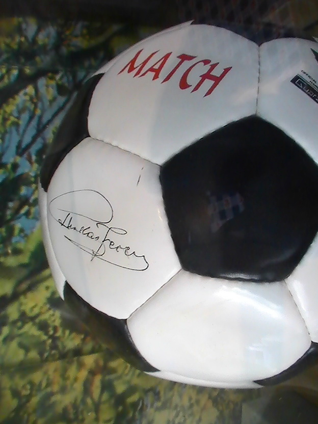 Soccerball with Ferenc Puskas signature, predented on FK Plavi Dunav 80's aniversary